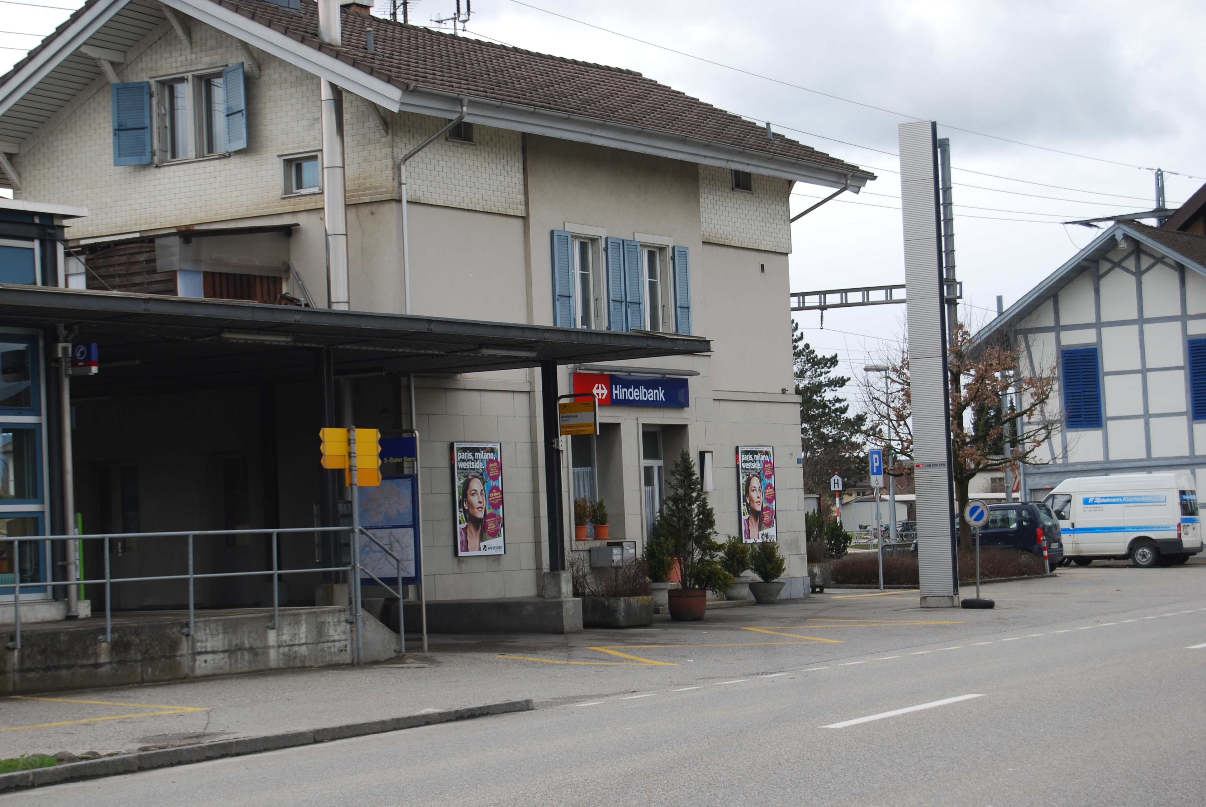 Train station of Hindelbank, canton of Bern, SwitzerlandEsperanto: Stacidomo de Hindelbank, Kantono Berno, Svislando